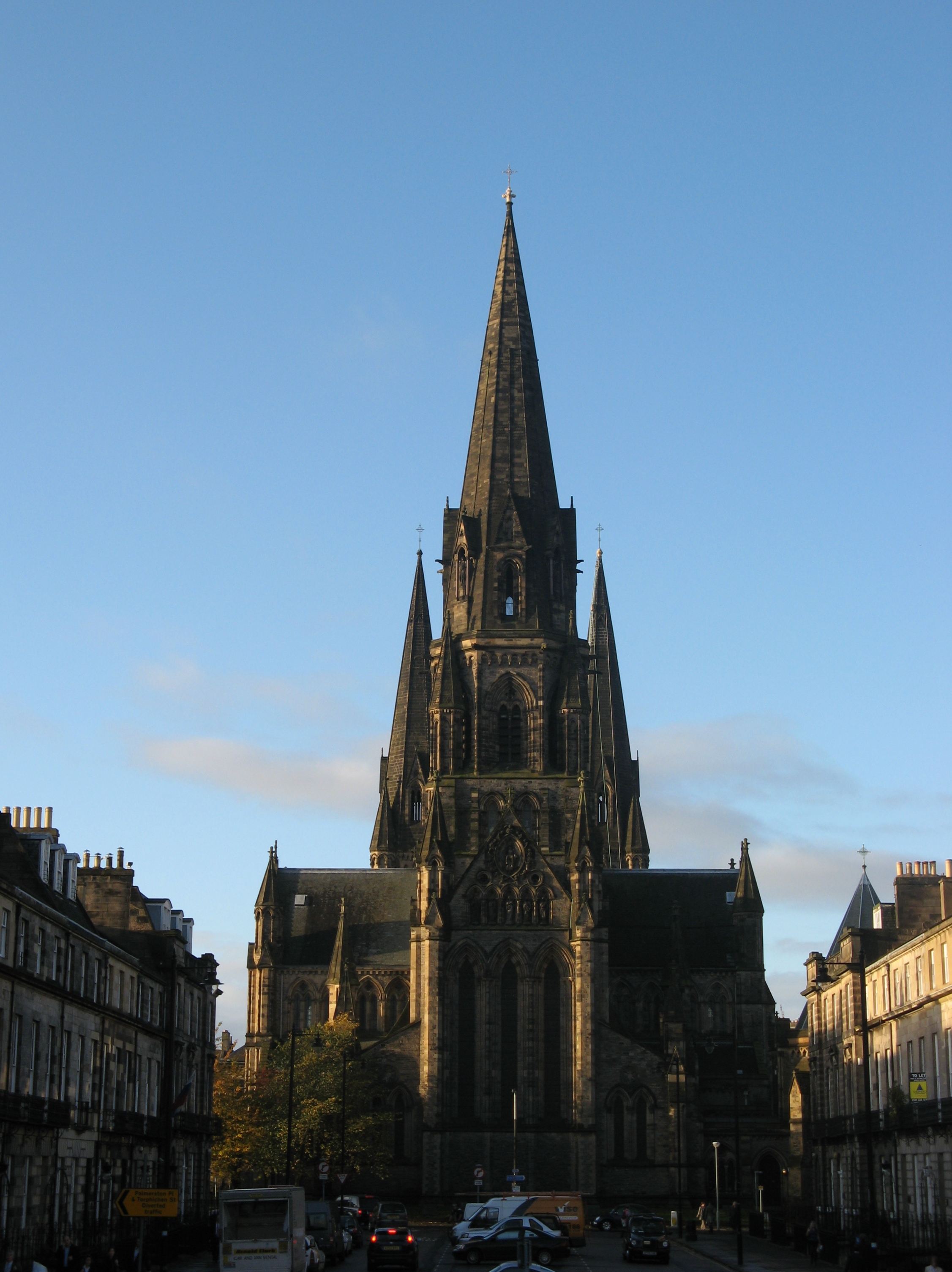 East end of St Mary's Episcopal Cathedral, Edinburgh, looking along Melville Street